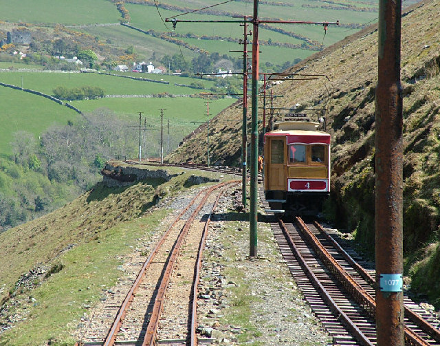 Cars pass on the Snaefell Mountain Railway, Isle of Man with the hamlet of Agneash just visible in the distance.